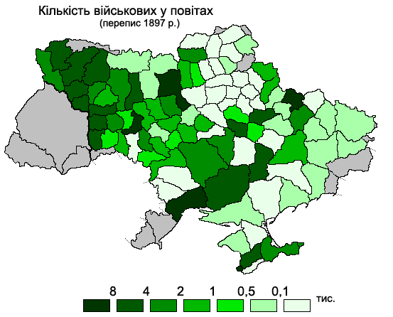 Number of military personnel, 1897 census